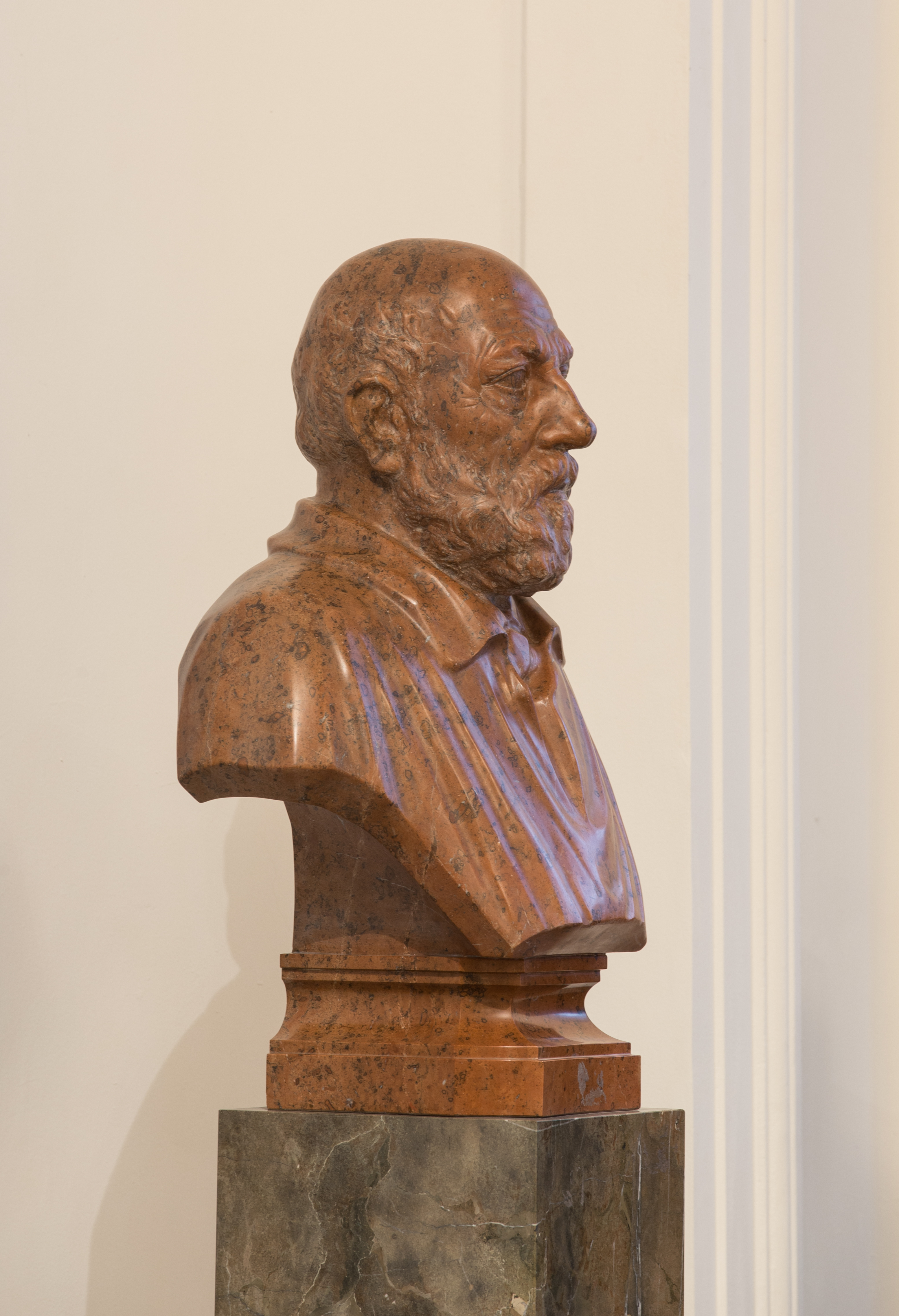 Eduard Suess, geologist, Bust in the Aula of the Academy of Sciences, Vienna. Bust from Wilhelm Frast (1957)